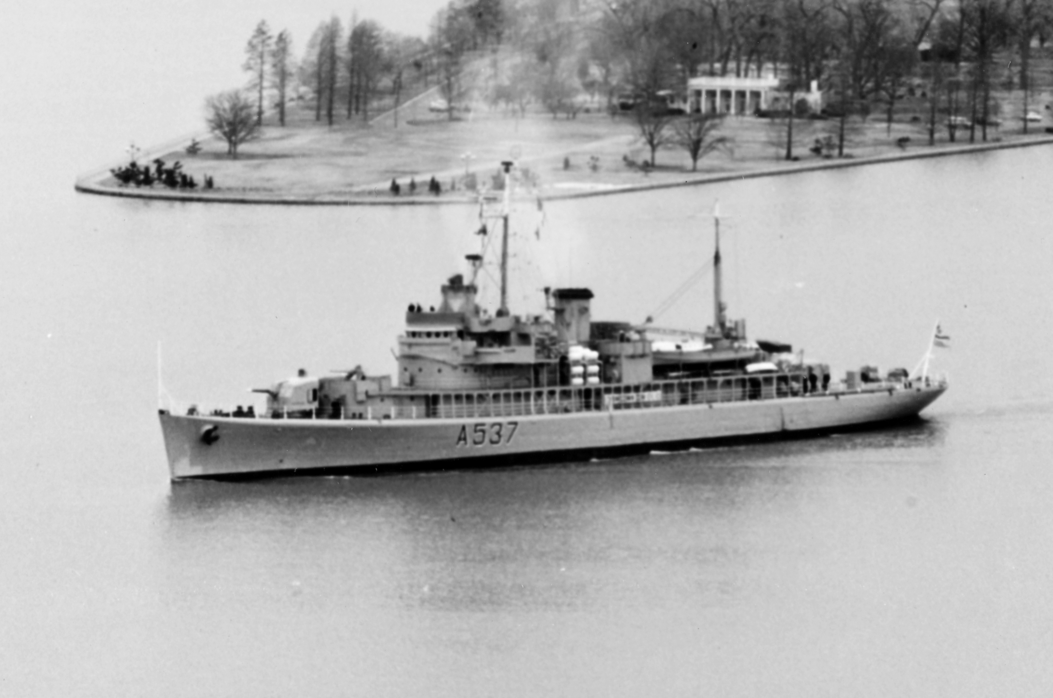 The Norwegian training ship KNM Haakon VII (A537) off Washington D.C. (USA), in March 1970. Haakon VII, a 2800-ton training ship, was converted from the U.S. Navy seaplane tender USS Gardiners Bay (AVP-39). Transferred to the Norwegian Navy in May 1958, she travelled widely in her new role as naval cadet training ship. Haakon VII was disposed of in 1974.